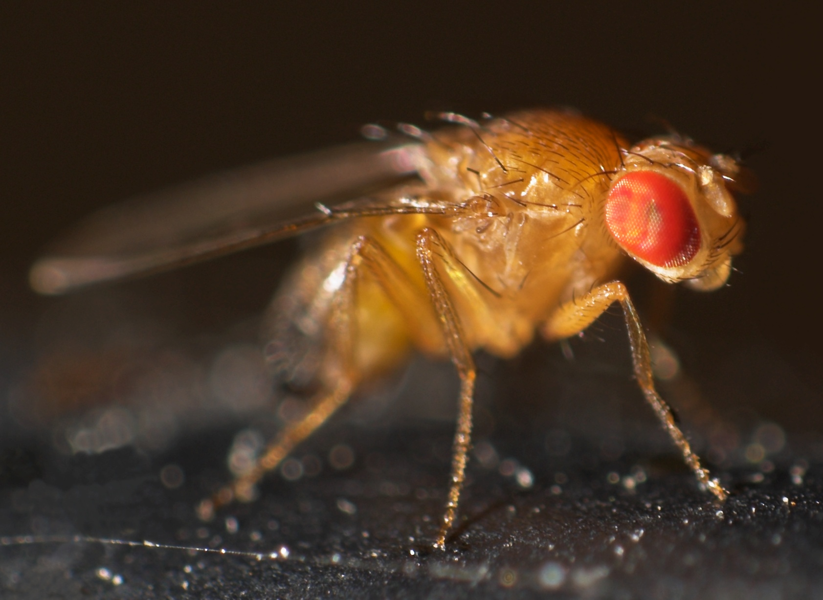 Drosophila melanogaster